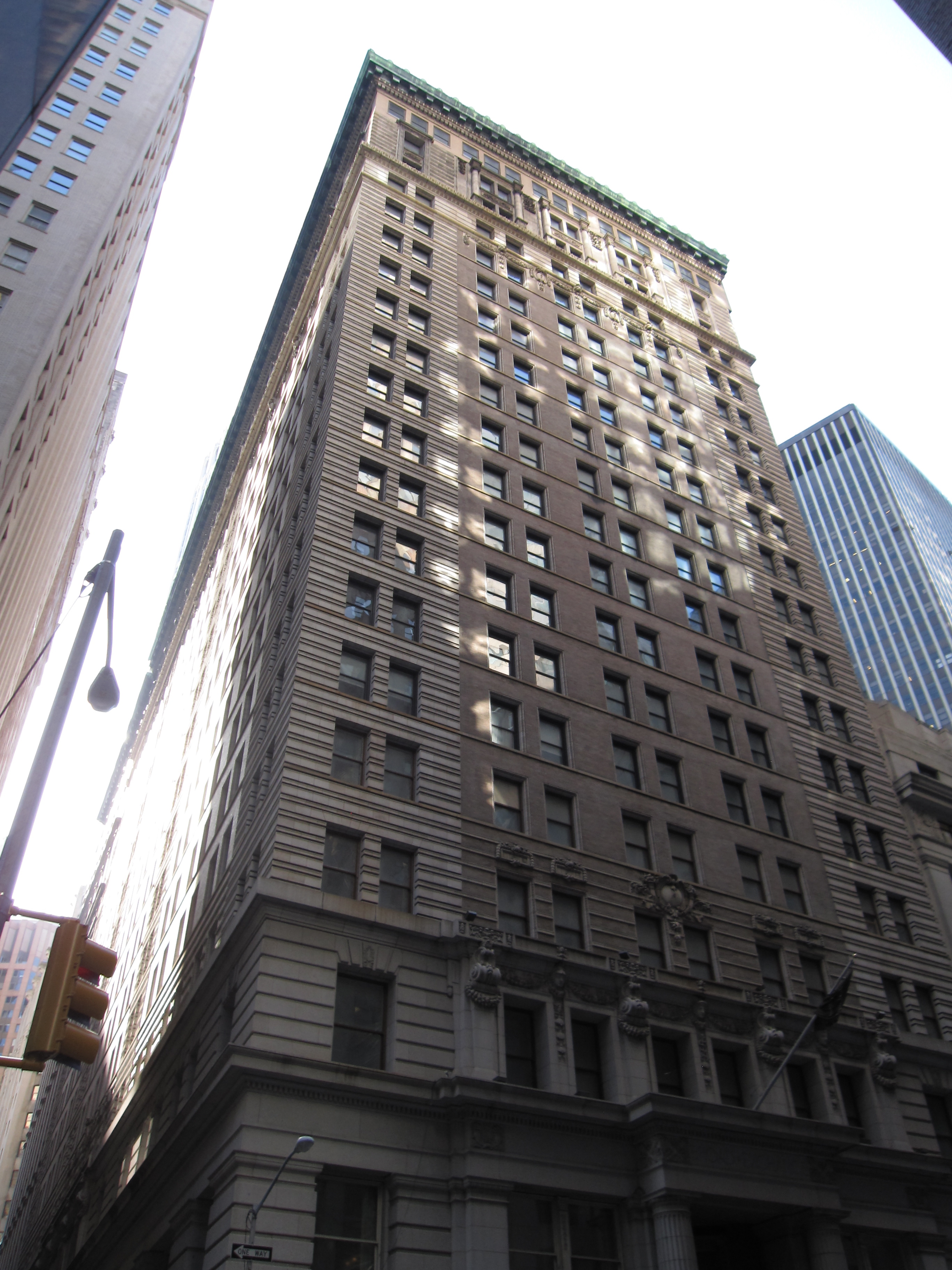 Broad Exchange Building